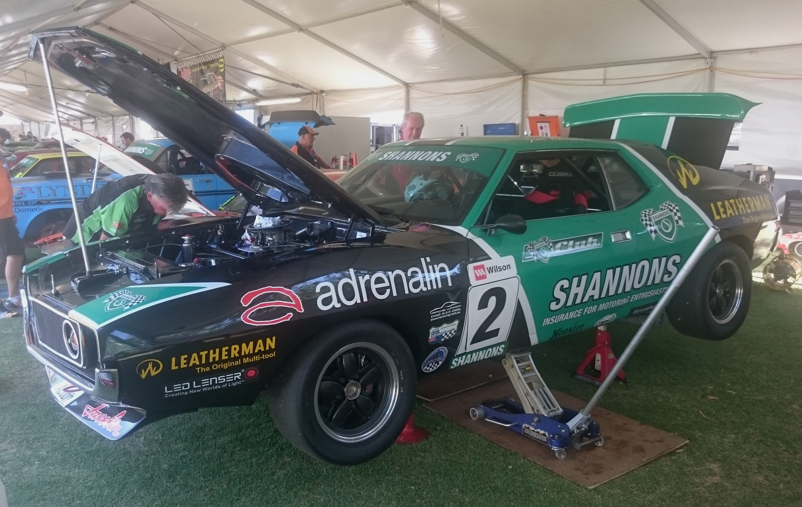 The AMC Javelin of Jim Richards at the Adelaide Parklands Circuit in 2017. Richards was contesting the opening round of the 2017 Touring Car Masters.